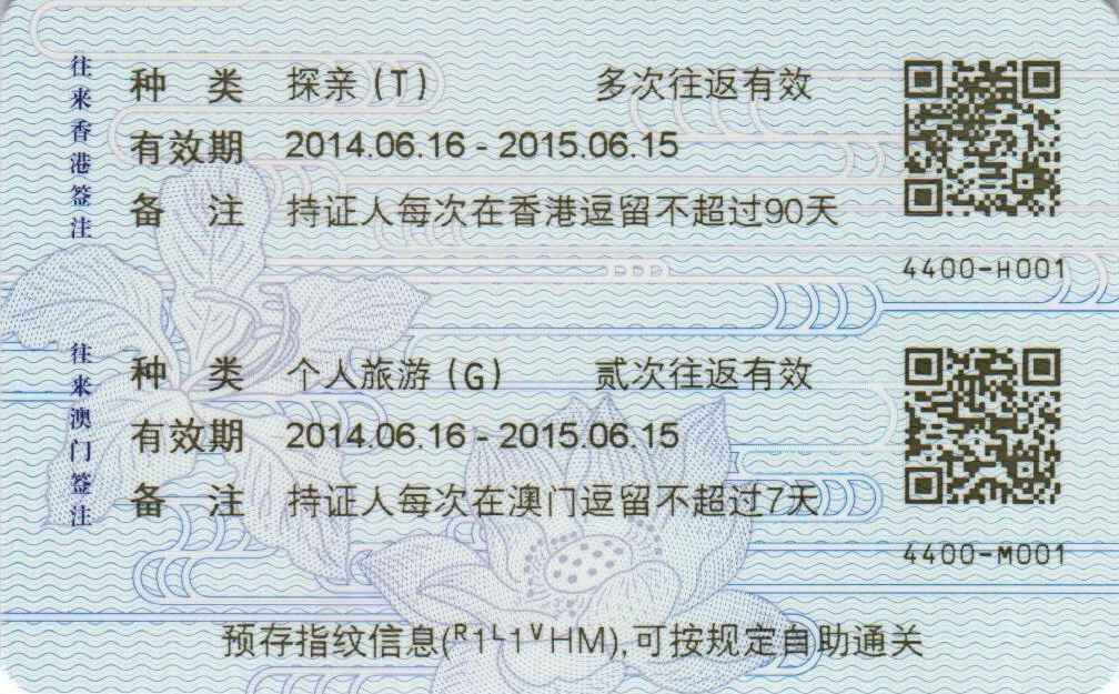 The back side of the official sample of a Two-way Permit